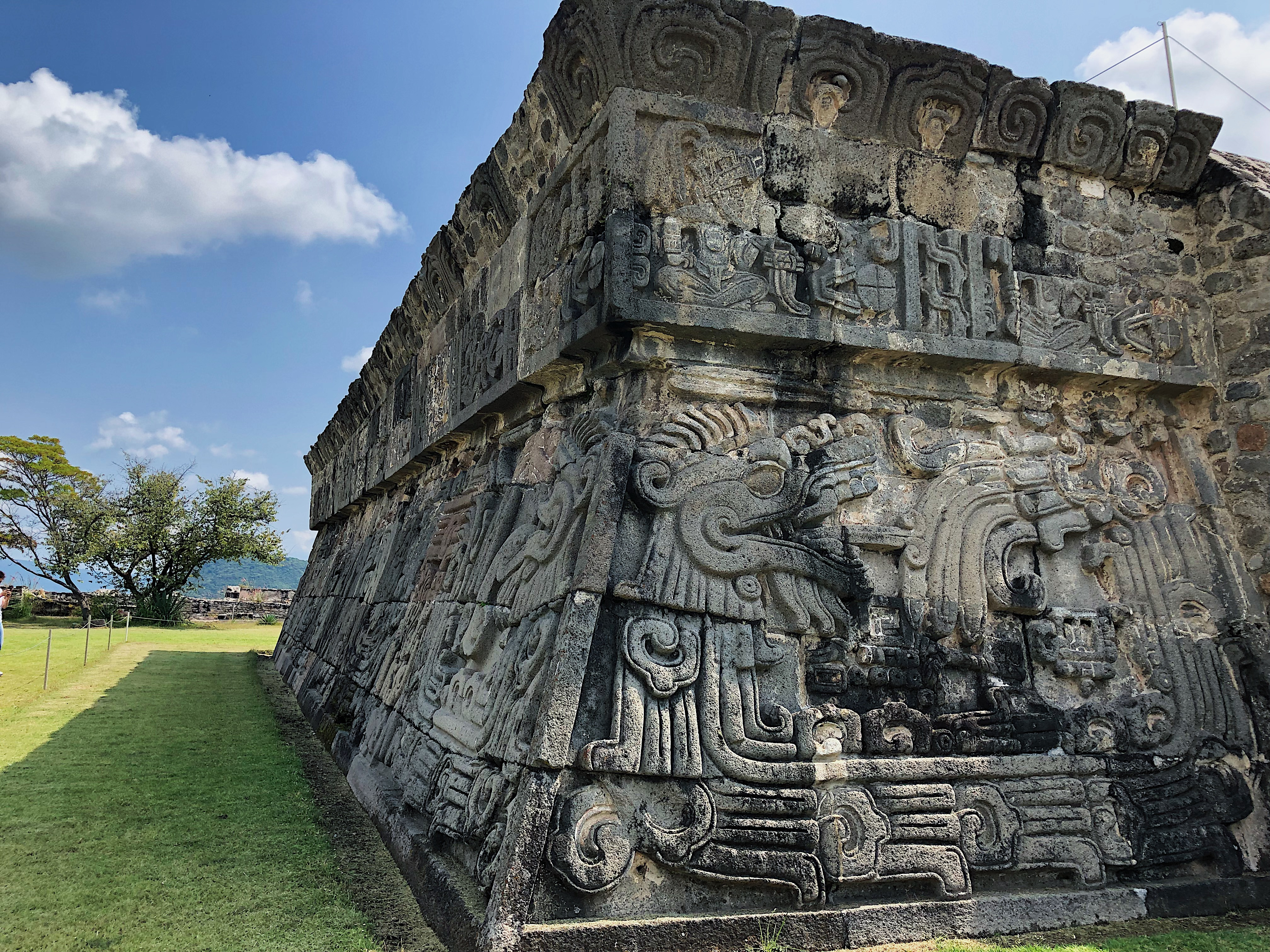 Mural del debate, con relieves de deidades. Xochicalco